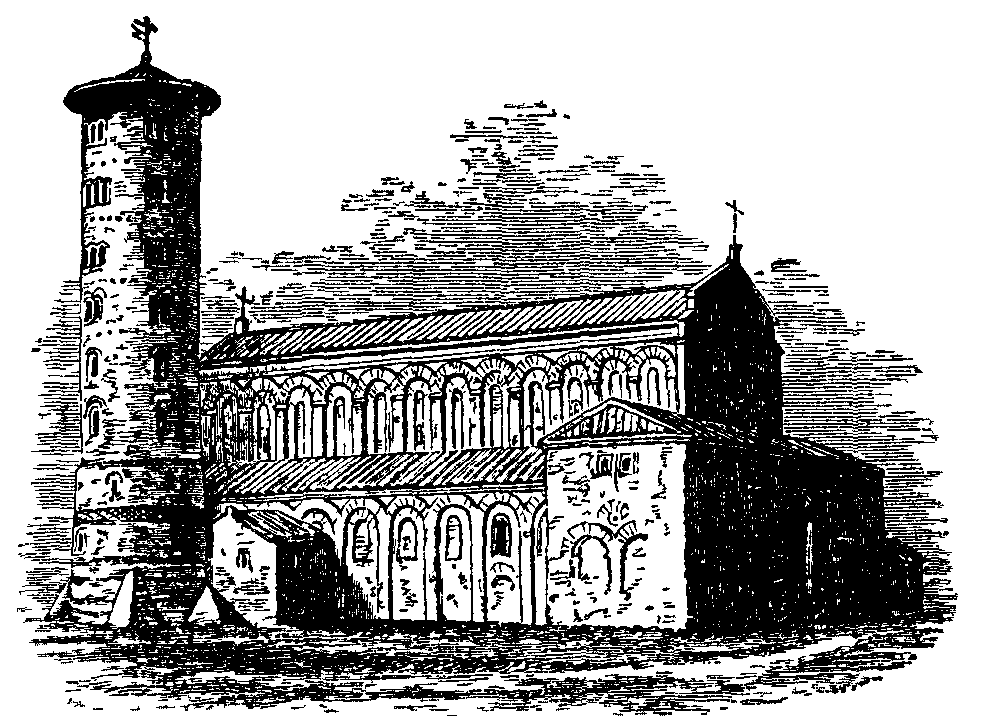 Illustration from 1911 Encyclopædia Britannica, article BASILICA. Fig. 8.—S. Apollinare in Classe, Ravenna.